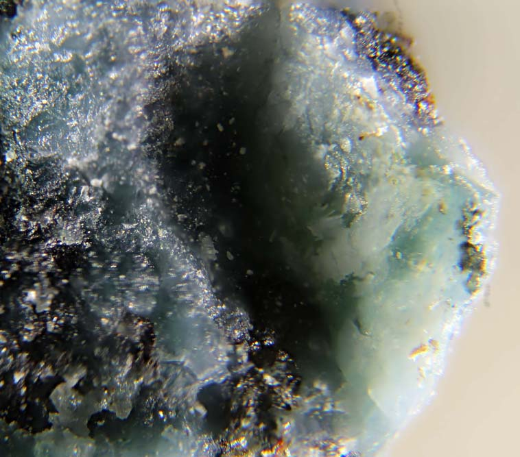 Greenish crystal aggregates of jasmundite associated to mayenite from the famous Bellerberg (Bellerberg, Ettringen, Eifel Mountains, Rhineland-Palatinate, Germany).